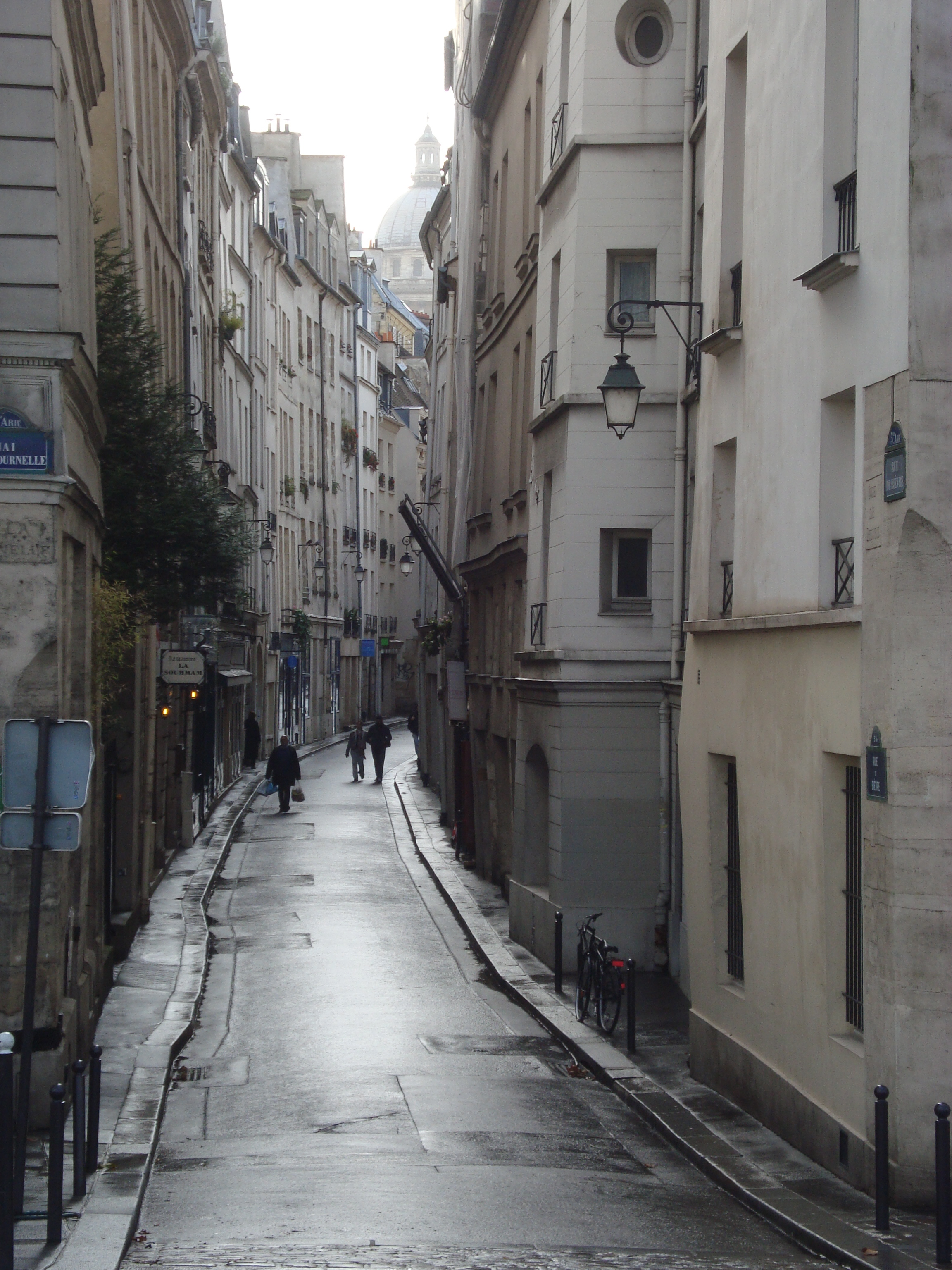 Rue de Bièvre in Paris (at the numer 22 of the street was the personnal appartment of François Mitterrand, president of France)